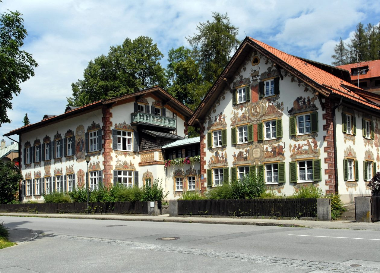 Oberammergau, scraffity paintings on "Hänsel und Gretelhaus" in Street Ettalertstr.